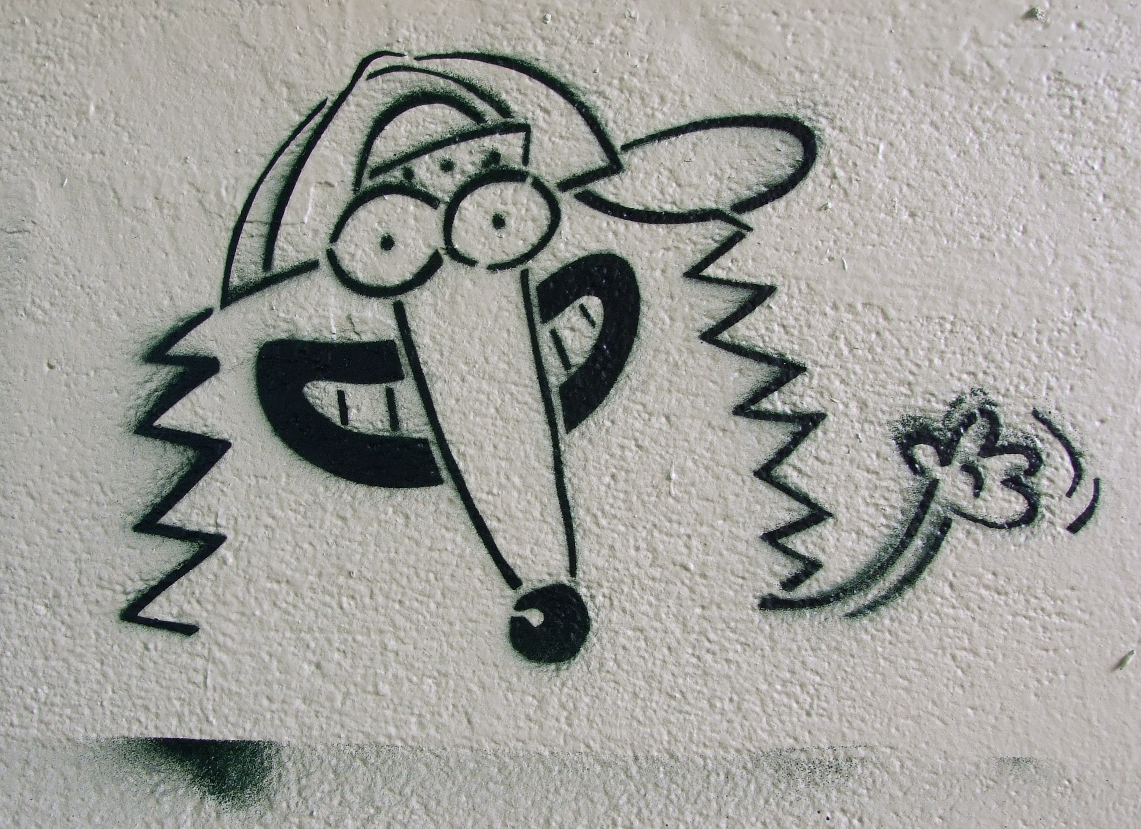 Stencil graffiti in the underpass at Wyzwolenia Street in Szczecin, Poland.